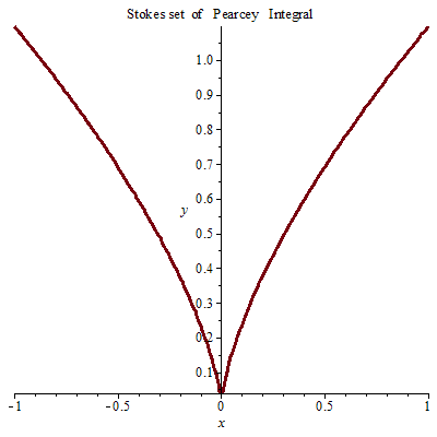 Stokes set of Pearcey Integral